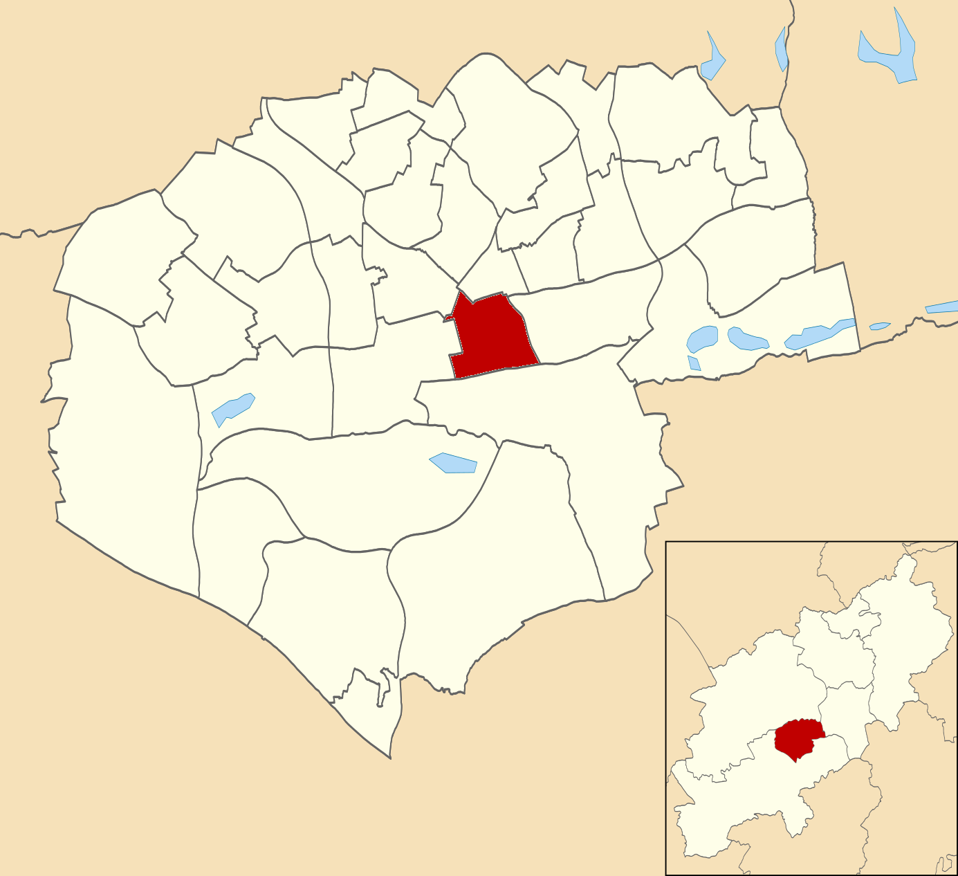 Ward map showing the Abington ward of Northampton Borough Council